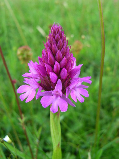 Pyramidal orchid One of the commoner orchids of chalk and lime grasslands.